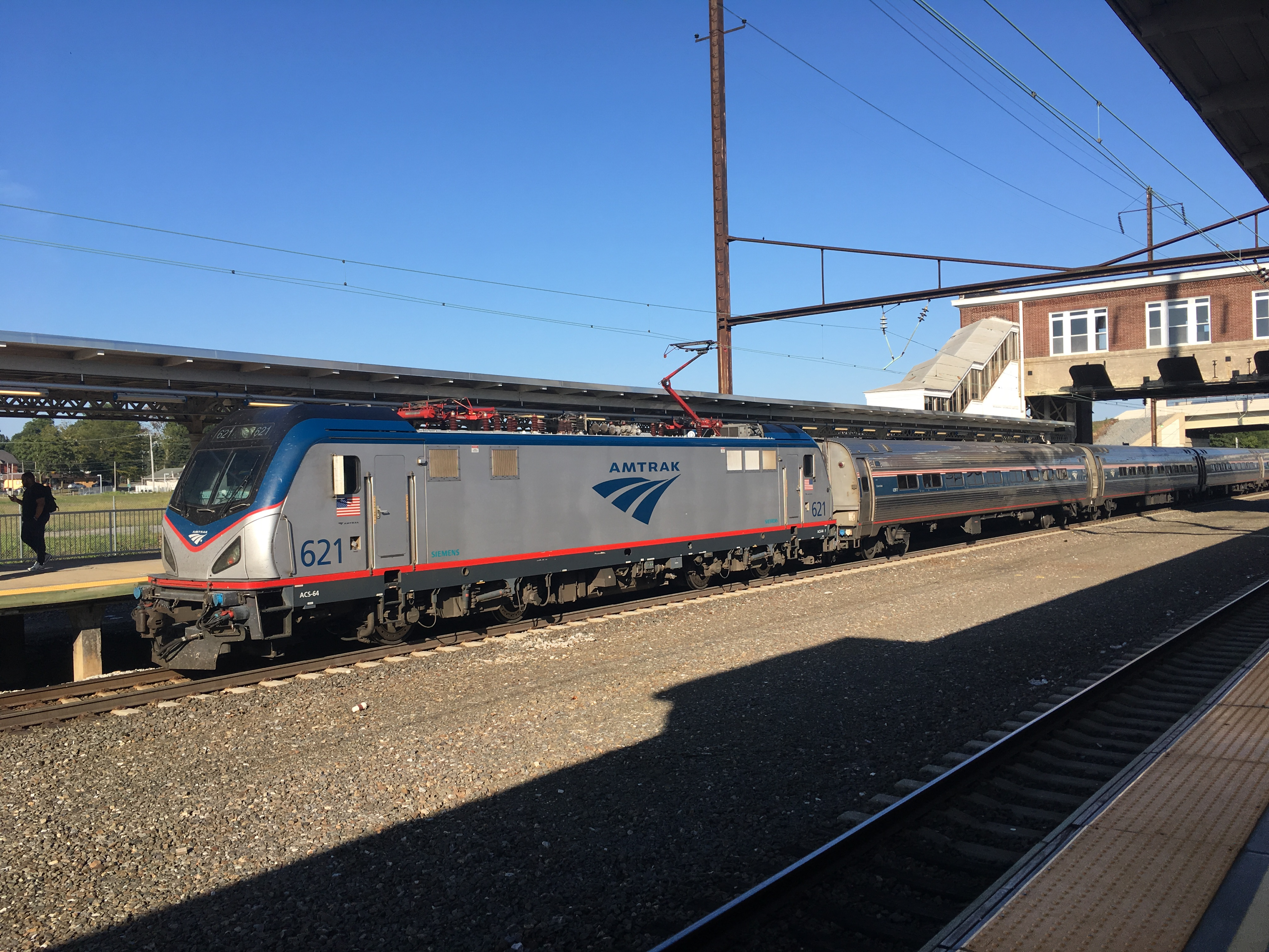 Amtrak Siemens ACS-64 621 leads a westbound Keystone Service train bound for Harrisburg, Pennsylvania into Lancaster Station in Lancaster, Pennsylvania